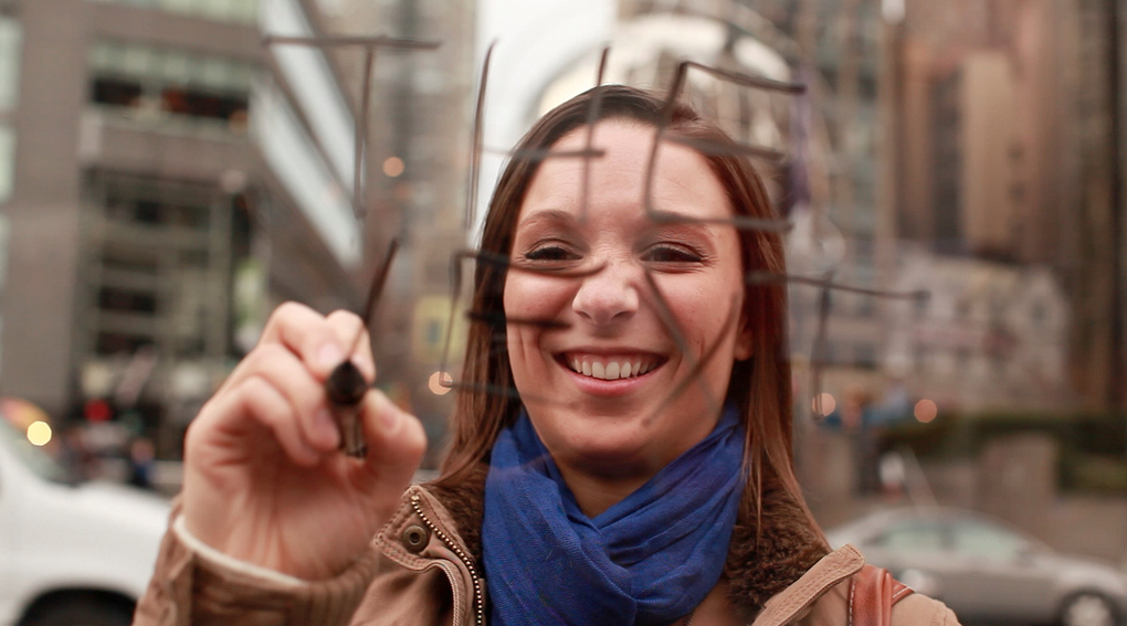 Girl signing "The Next List" using 'mirror-writing' technique.